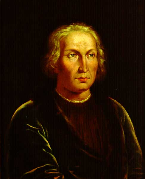 Porfait Colom by Rafael Tejedo. (71 x 57 cm). This porfait was used for ilustrating 100 ptes.